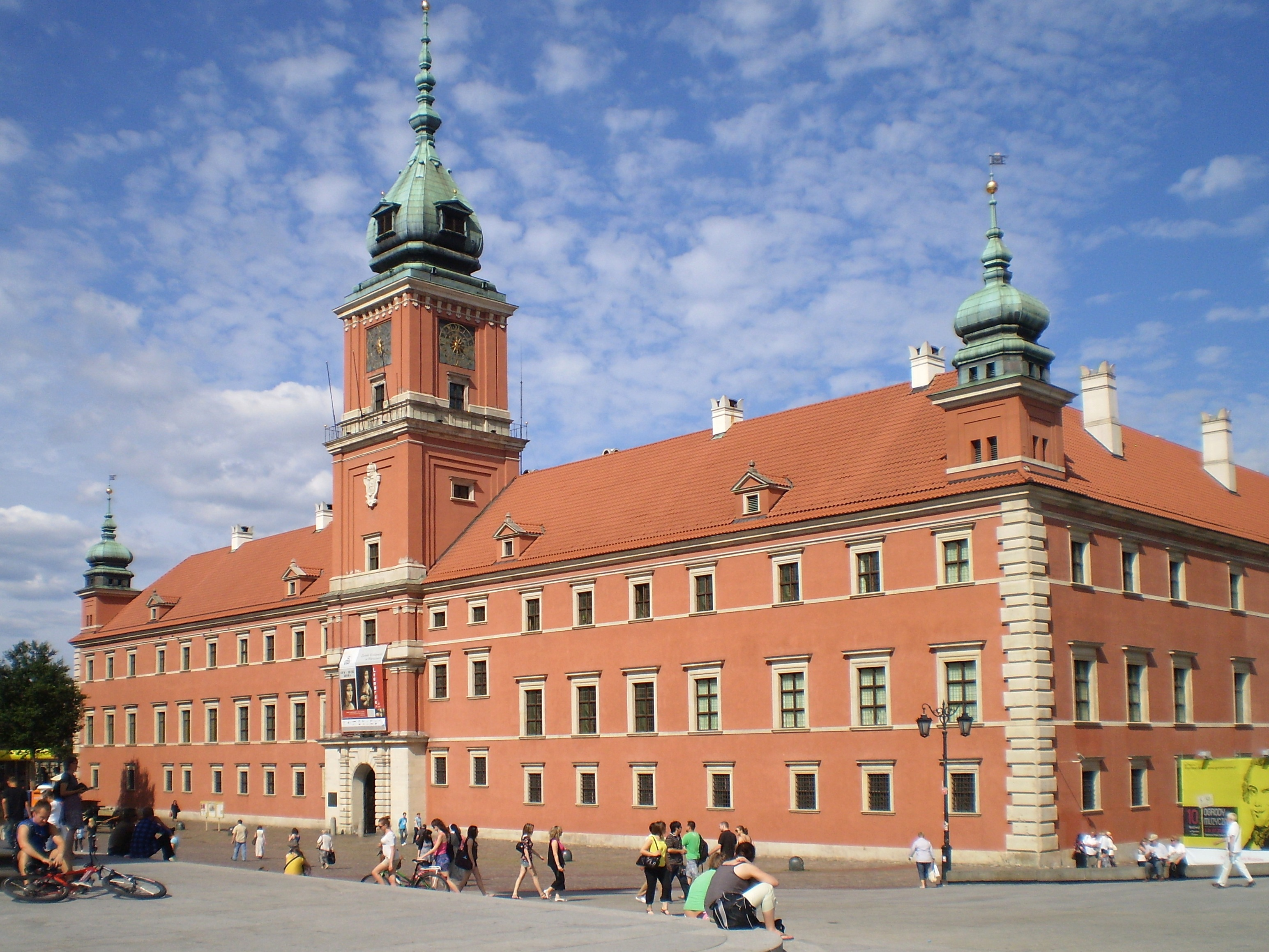 Warsaw Royal Castle, Poland